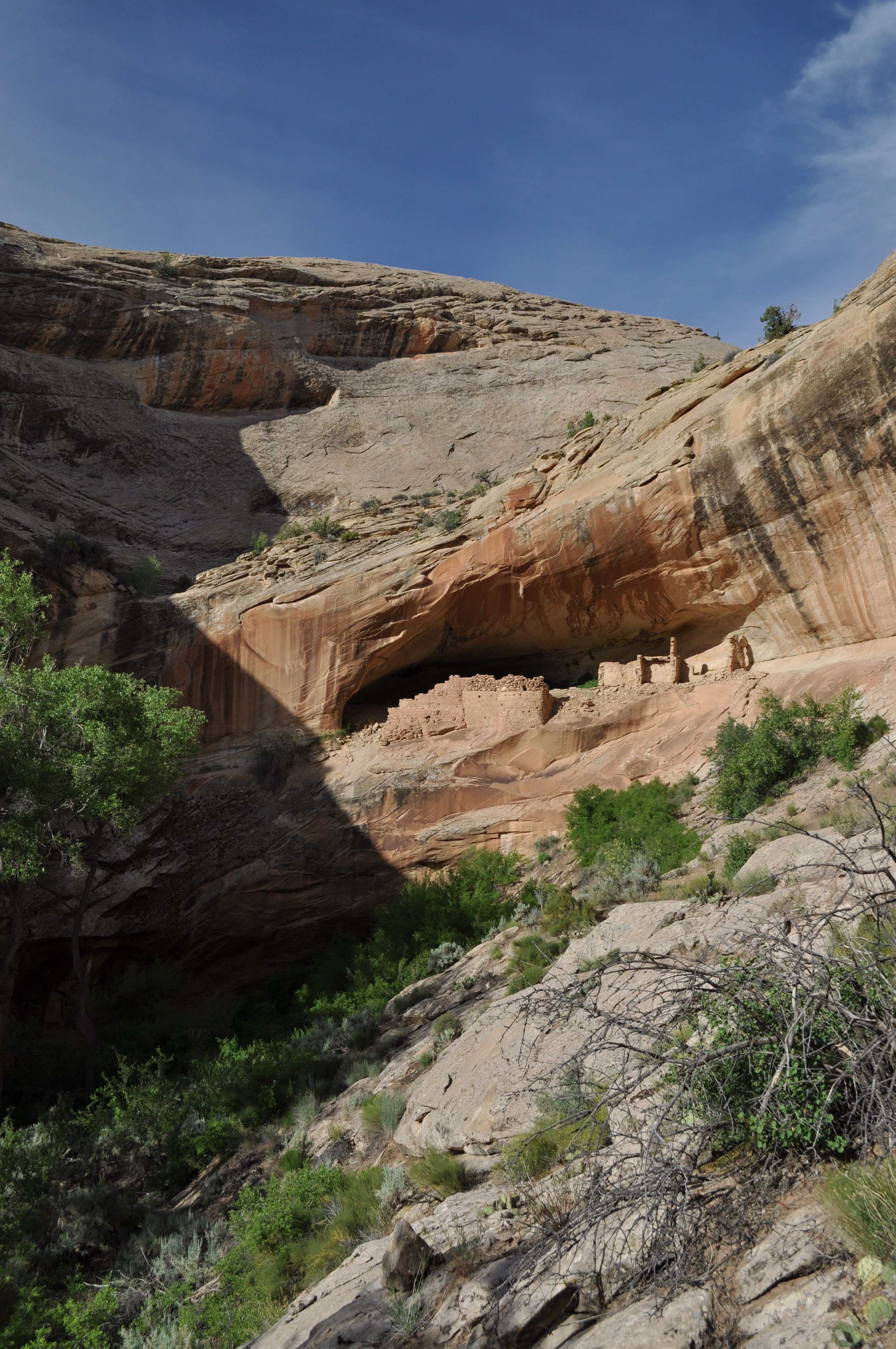 Monarch Cave Ruin cliff dwelling on Comb Ridge outside of Bluff, Utah.